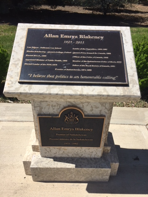 Allan Blakeney Memorial, located in Wascana Centre, Regina, Saskatchewan